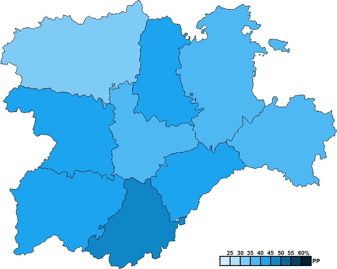 Provincial results for the 2015 Castilian-Leonese regional election.